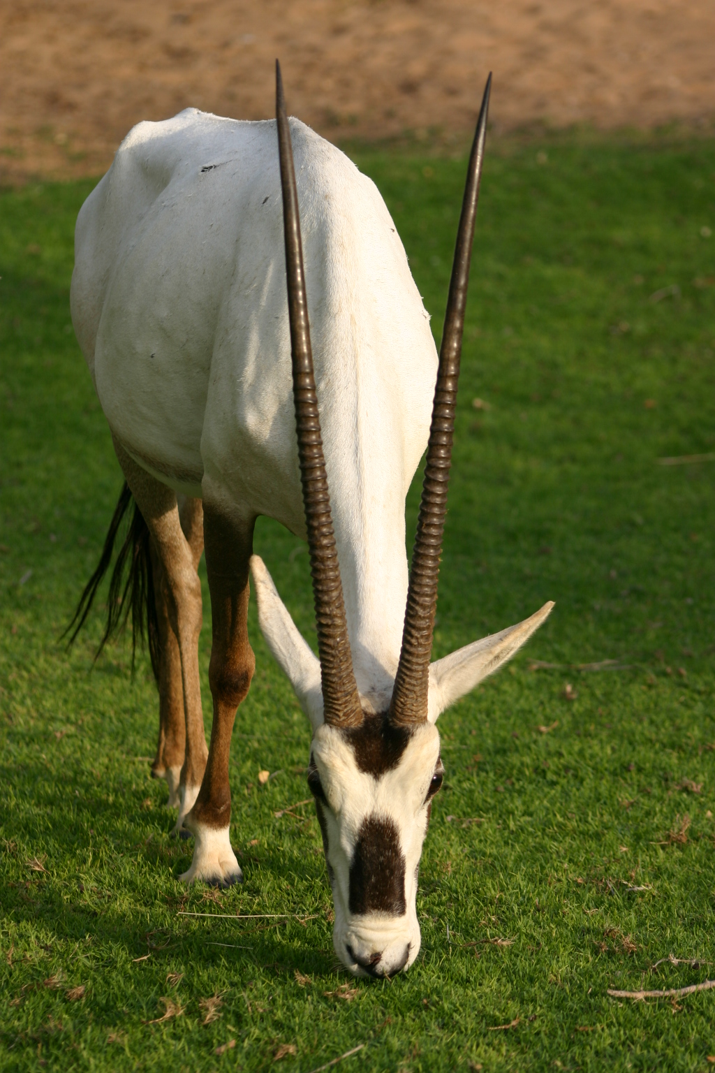 Arabian Oryx at Dubai Desert Conservation Reserve